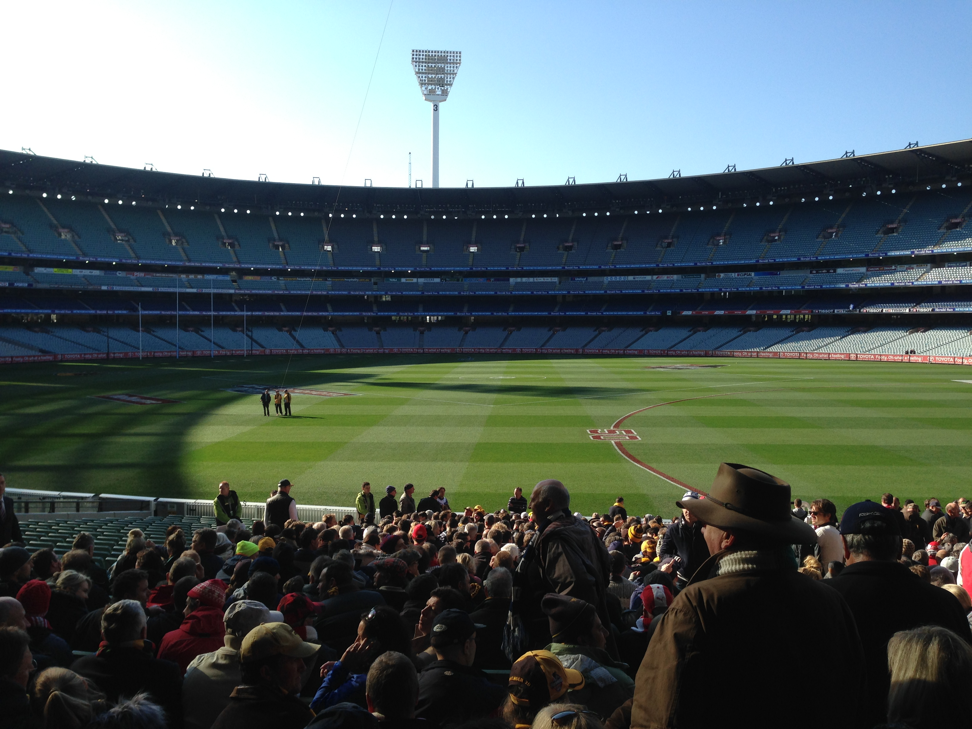 2014 AFL Grand Final. Shot of the ground shortly after the gates for the MCC members opened at 8am, patrons are taking their seats.